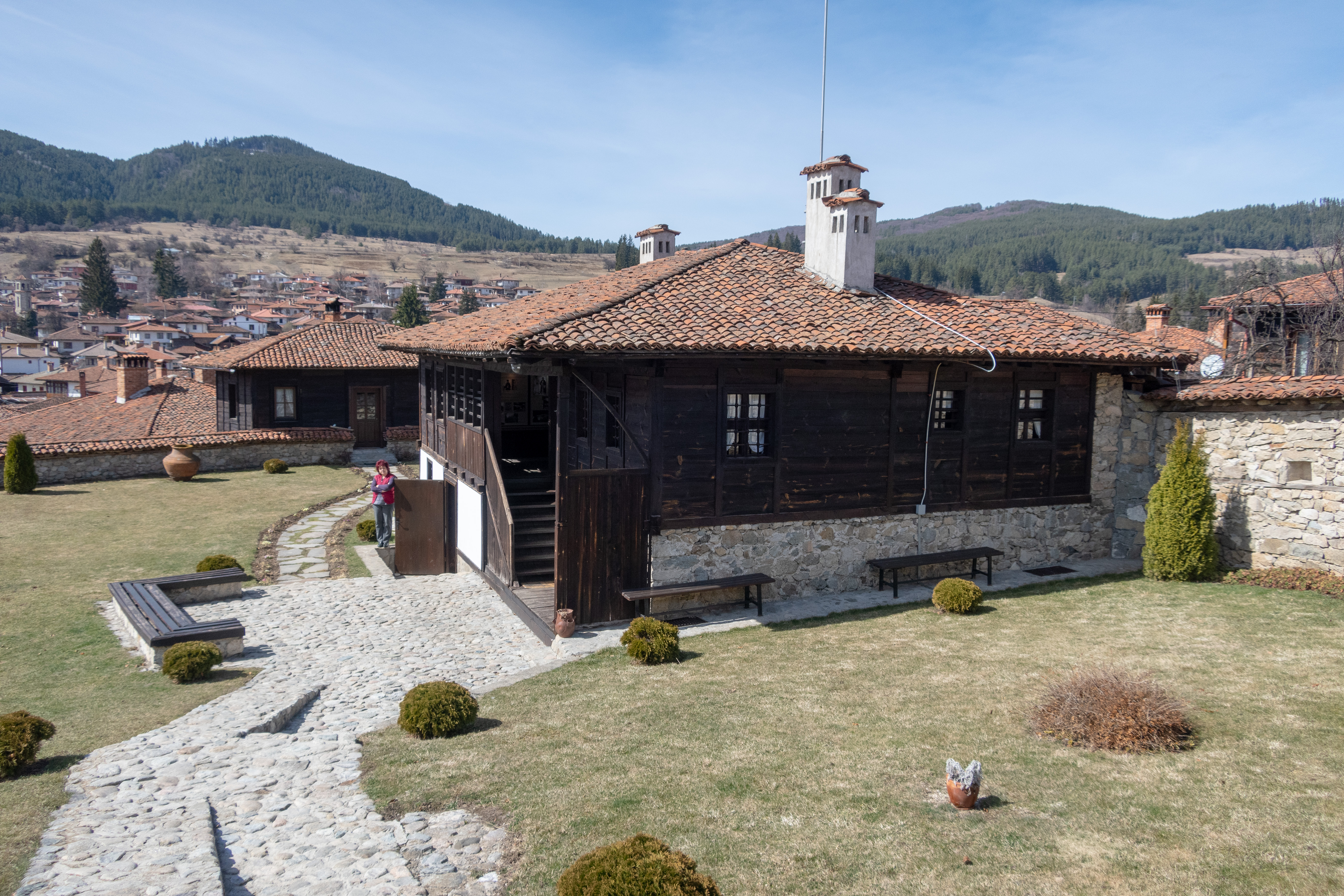 Enlightened Center, Koprivshtitsa